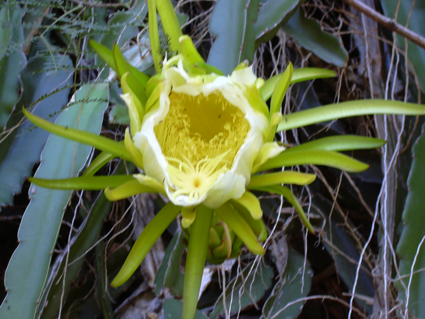 Hylocereus undatus (flower). Location: Maui, Baldwin Ave